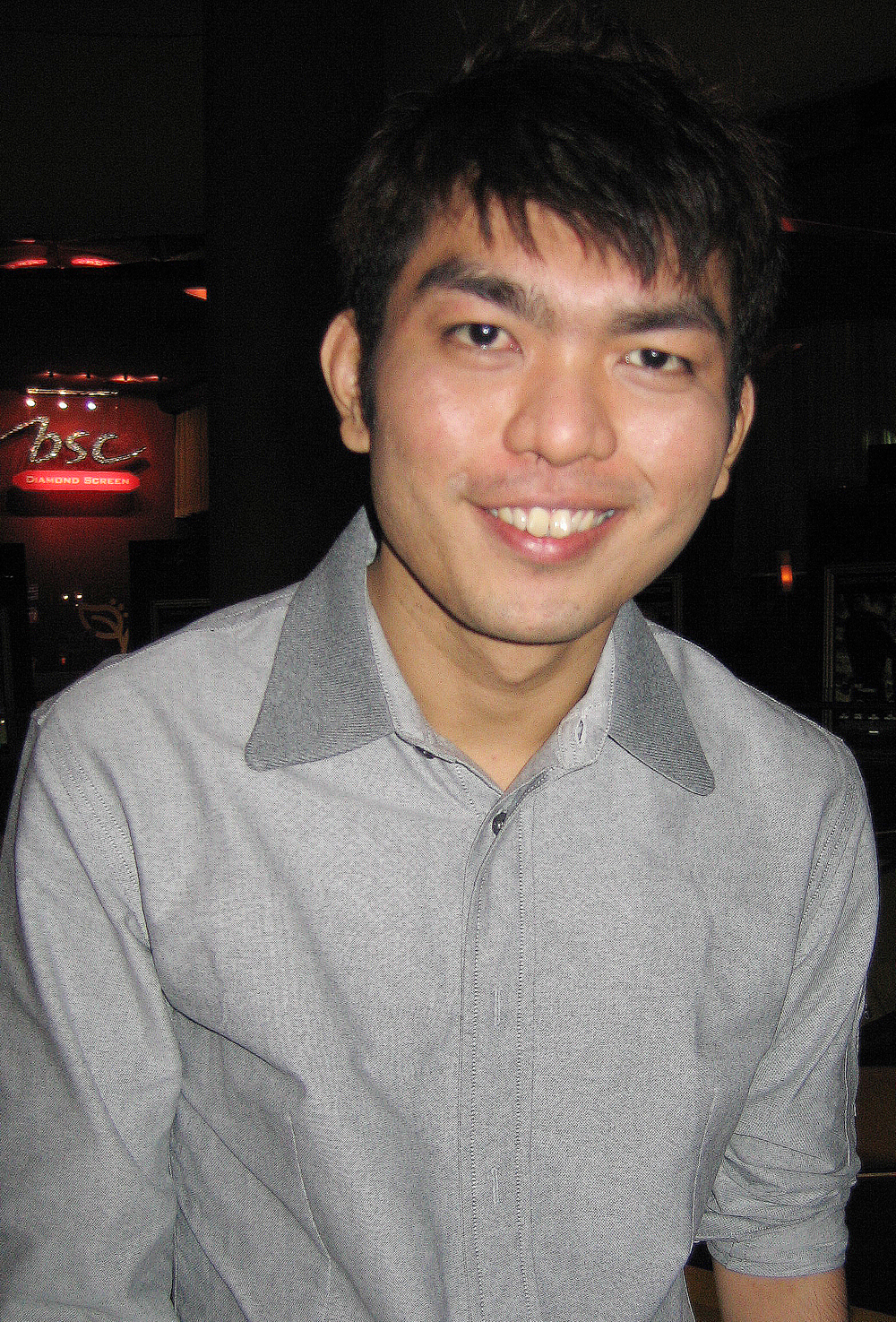 Singaporean film director and screenwriter Royston Tan attends the Harvest of Talents Awards ceremony at the World Film Festival of Bangkok at Esplanade Cineplex in Bangkok. His 2007 film 881, was among the nominees.